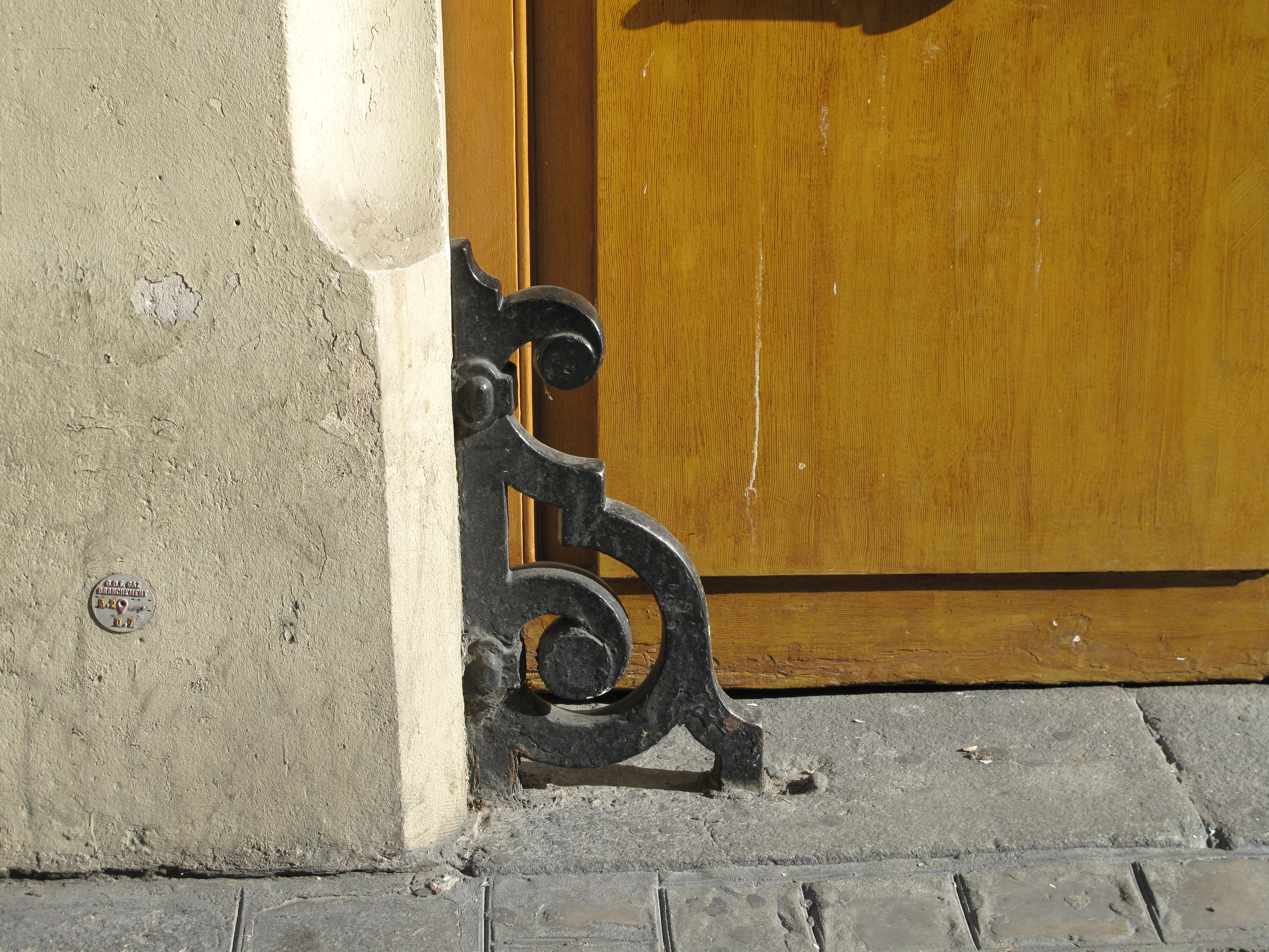 Ornated guard stone : 85, rue Lafayette, Paris